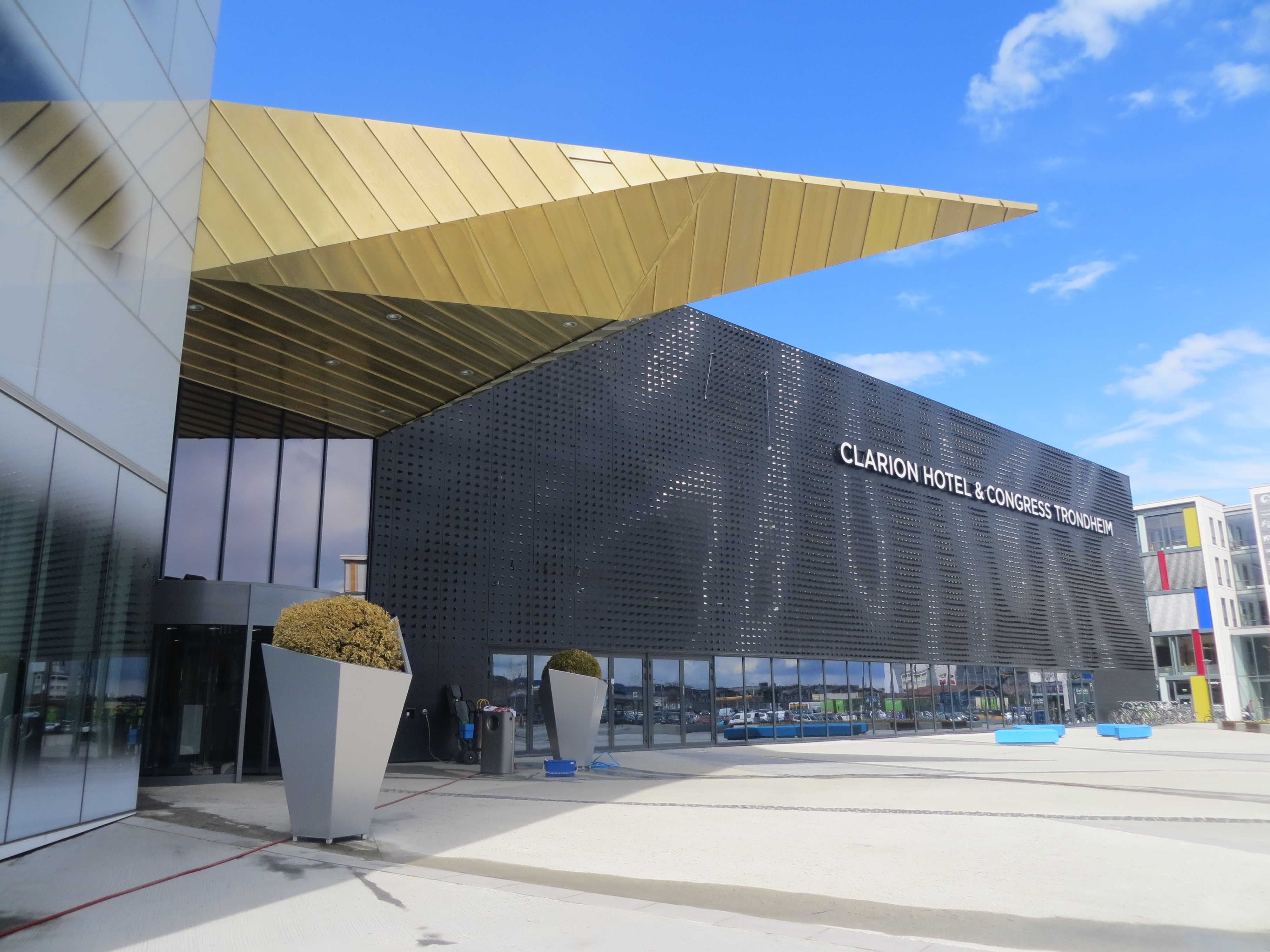 Image of the Clarion Hotel & Congress, Trondheim, Norway